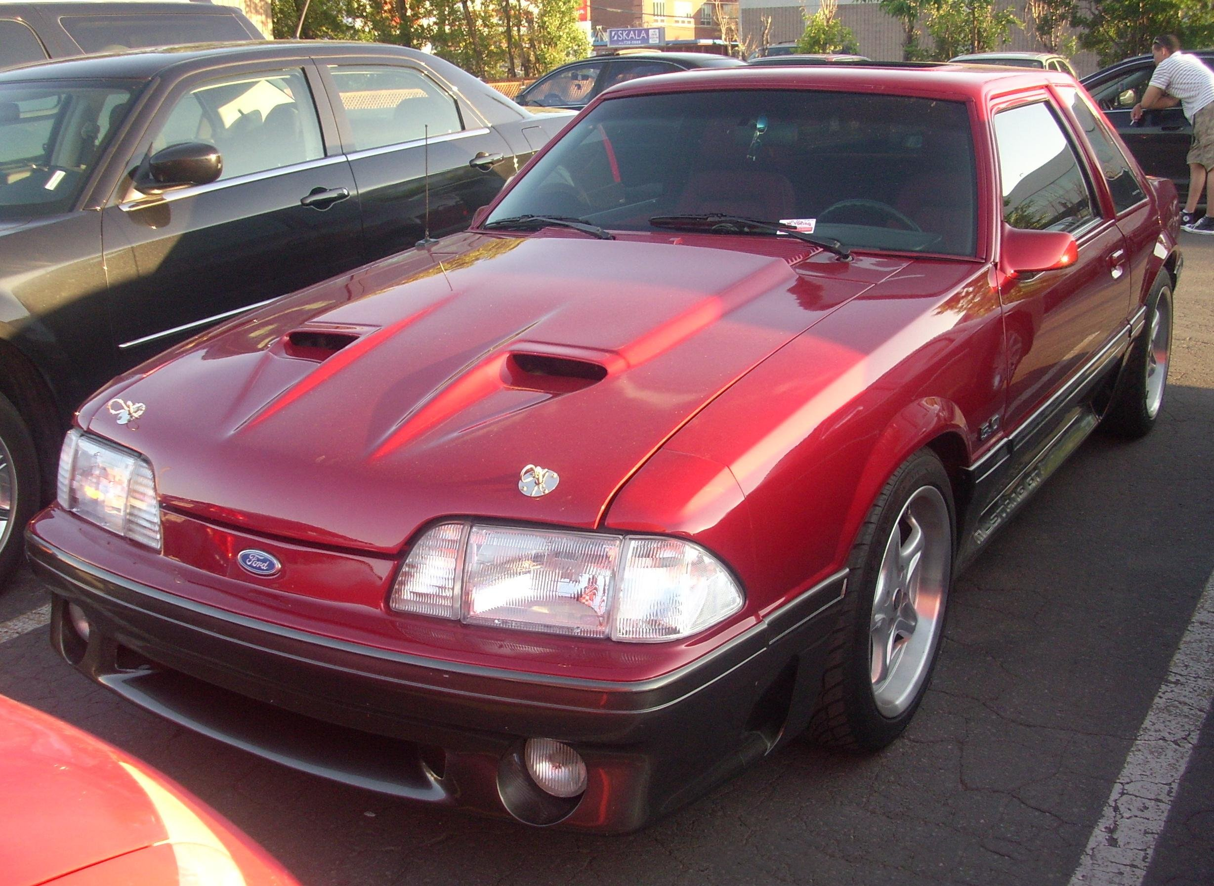 1991-1993 Ford Mustang photographed in Montreal, Quebec, Canada at Gibeau Orange Julep.